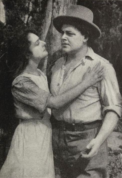 Still from the American drama film A Man of Sorrow (1916) with Dorothy Bernard and William Farnum, on page 105 of the September 1916 Motion Picture magazine.